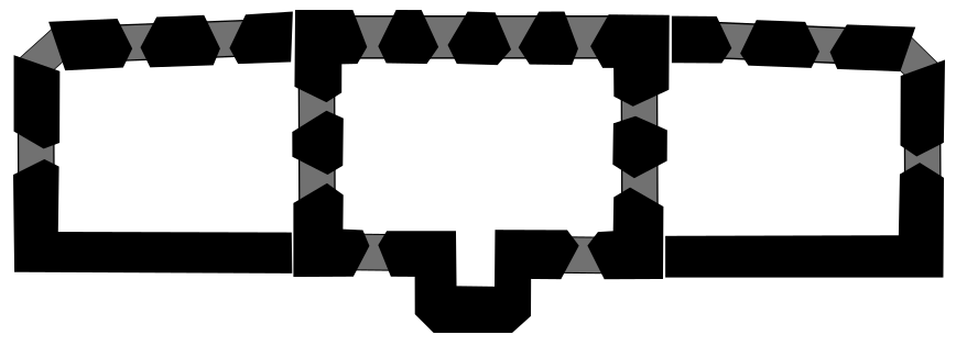 Plan of Netley Castle, upper levels, after Cathcart King, 1988